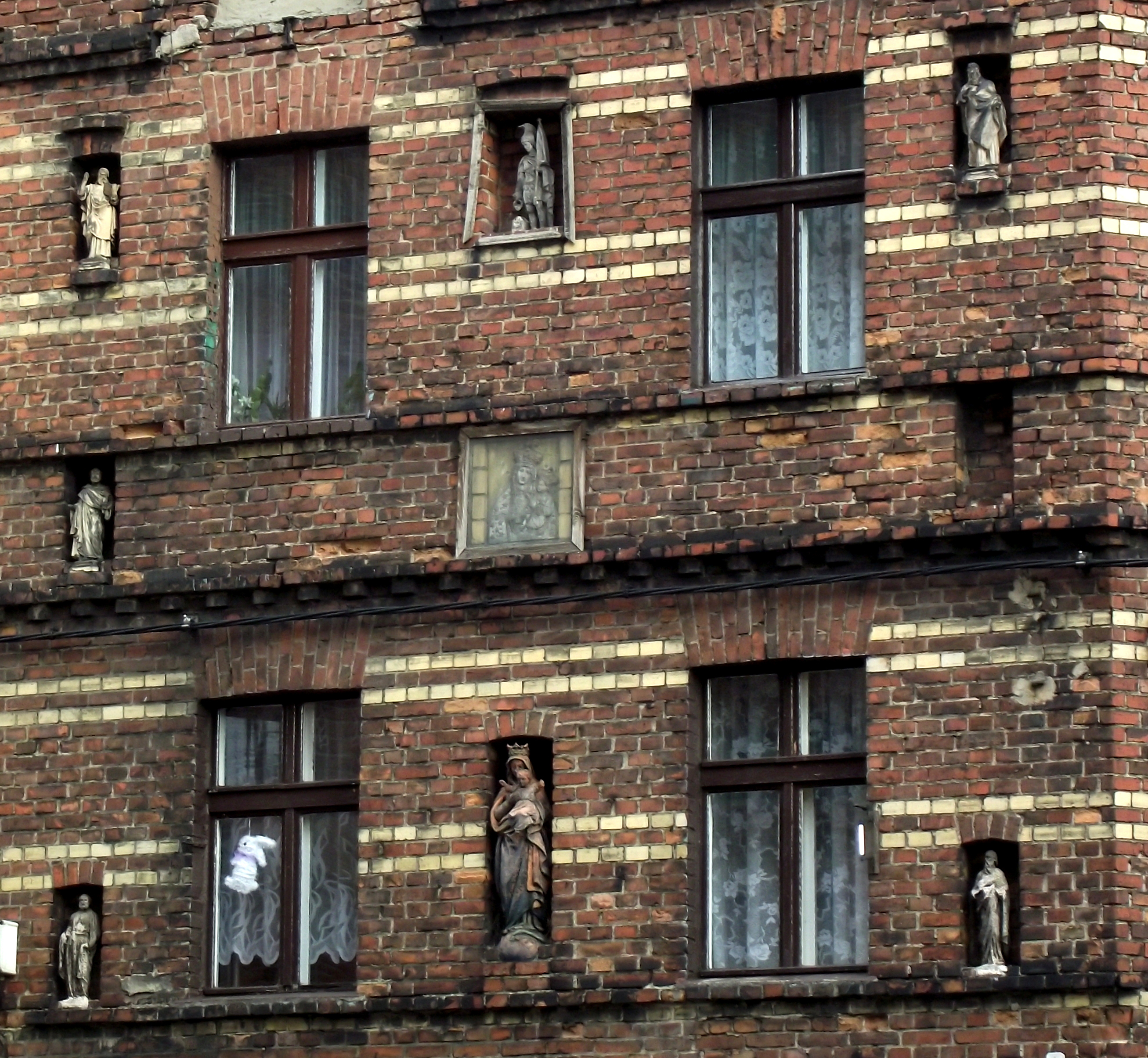 Piekary Śląskie, Upper Silesia. The facade of the house in 3 Jan Ficek Street with figurines of Holy Mary.